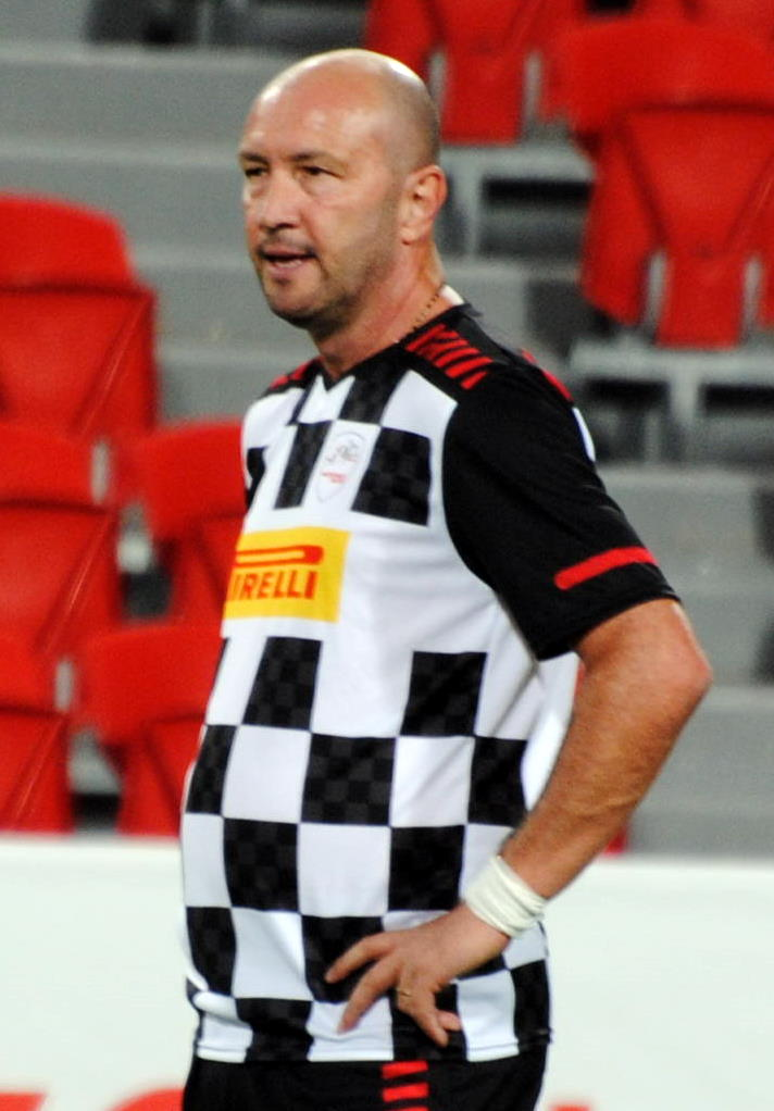 Walter ZengaDansk: Walter Zenga, italiensk fodboldspiller og træner.